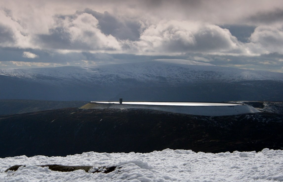 Turlough Hill reservoir viewed from Tonlagee.